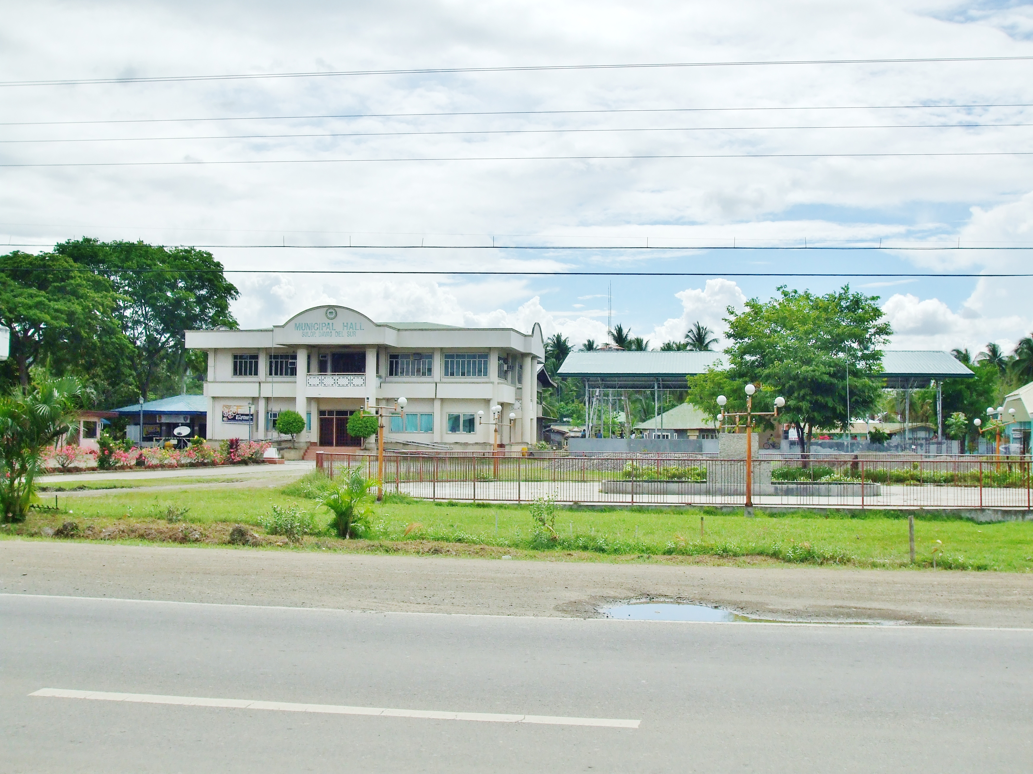 Municipal Hall